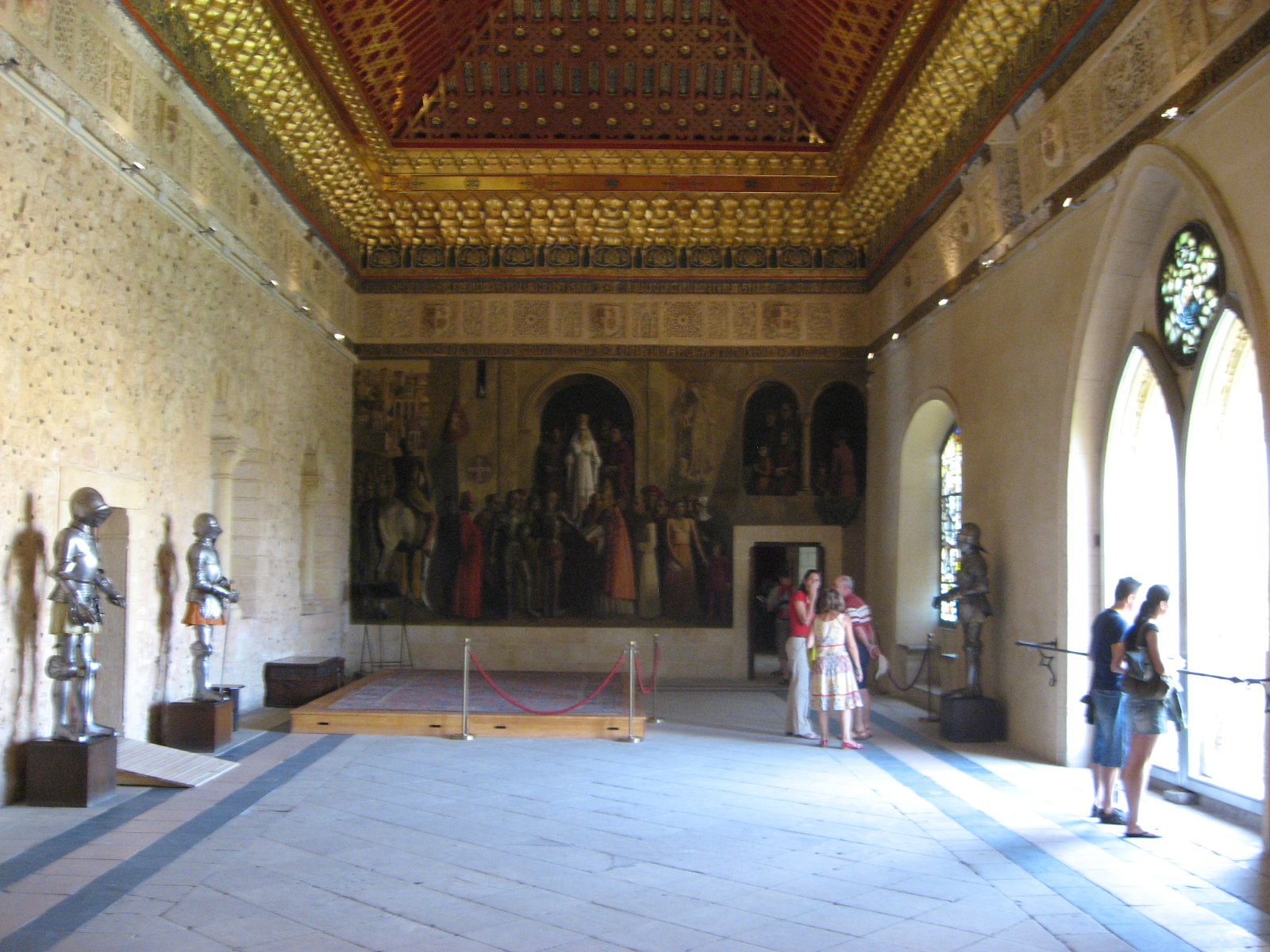 Gallery Hall in the Alcázar of Segovia